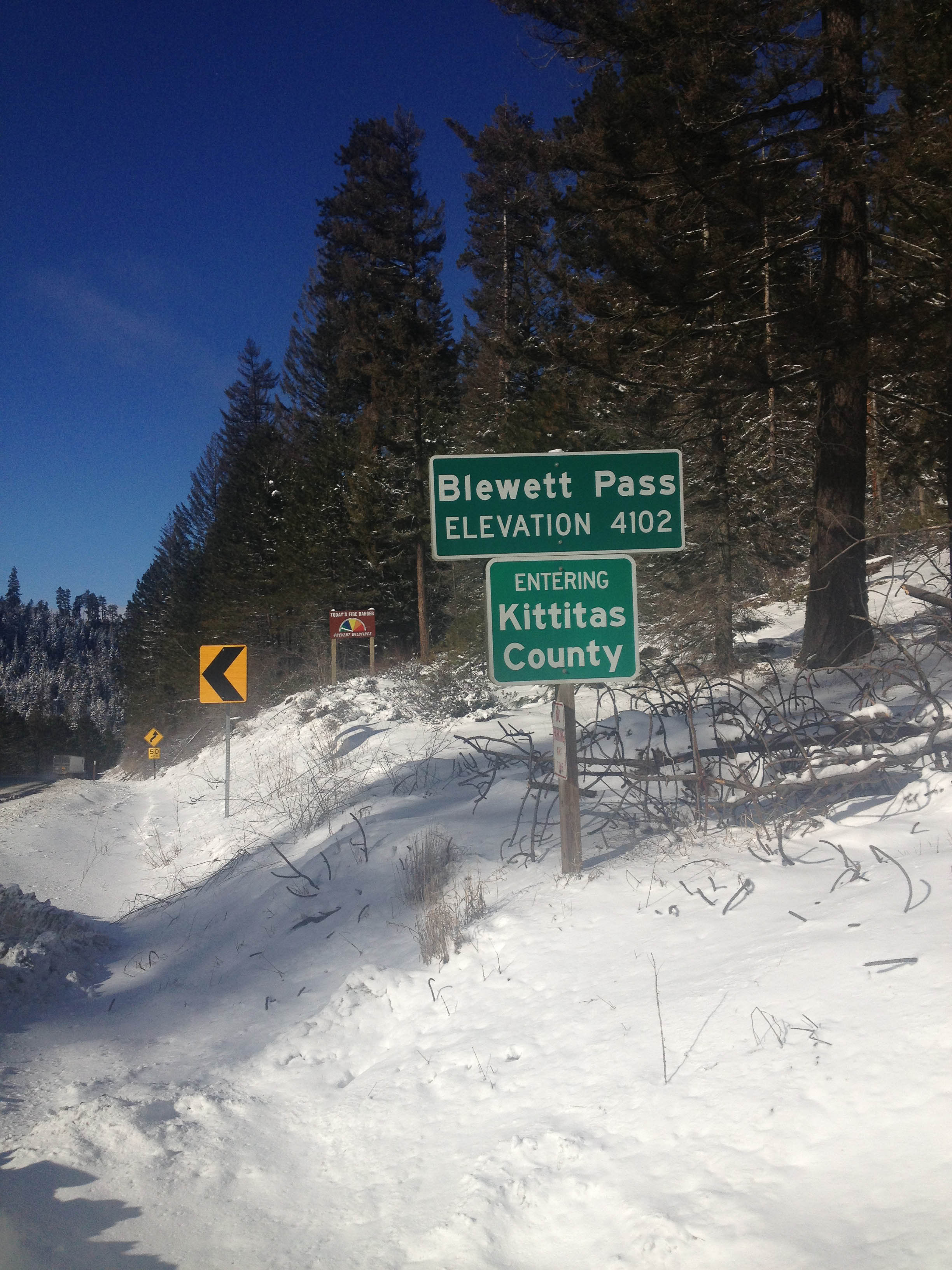 Blewett Pass cross country ski trip.